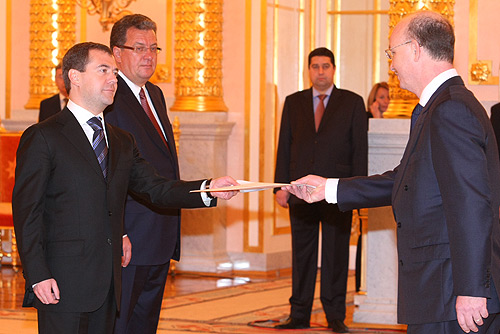 THE KREMLIN, MOSCOW. Presentation ceremony of foreign ambassadors’ letters of credentials. Ambassador of the People's Democratic Republic of Algeria Smail Shergi presents his letter of credentials to the President of Russia.